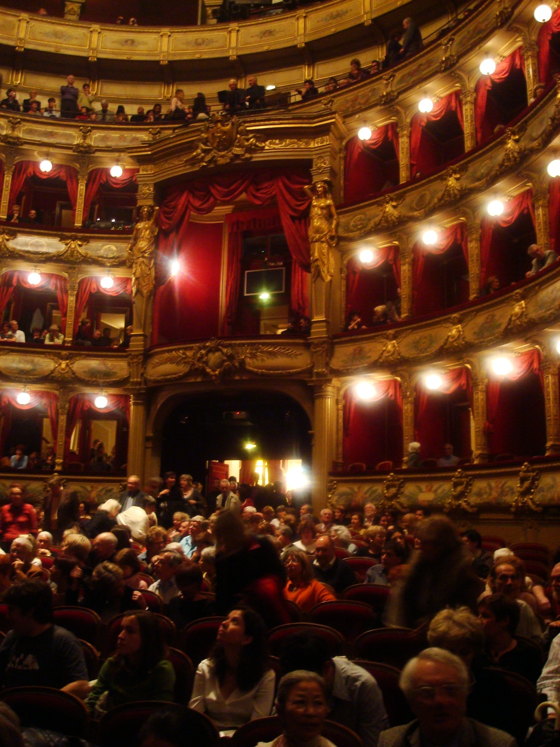 Interior of Opera de Nice, in Nice, France.